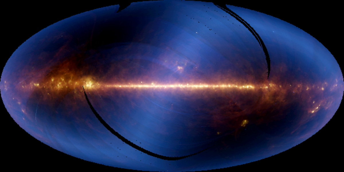 Nearly the entire sky, as seen in infrared wavelengths and projected at one-half degree resolution, is shown in this image, assembled from six months of data from the Infrared Astronomical Satellite (IRAS). The bright horizontal band is the plane of the Milky Way, with the center of the Galaxy located at the center of the picture. (Because of its proximity, the Milky Way dominates our view of the entire sky, as seen in this image. IRAS data processed to show smaller regions of the sky, however, reveal thousands of sources beyond the Milky Way.) The colors represent infrared emission detected in three of the telescope's four wavelength bands (blue is 12 microns; green is 60 microns, and red is 100 microns). Hotter material appears blue or white while the cooler material appears red. The hazy, horizontal S-shaped feature that crosses the image is faint heat emitted by dust in the plane of the solar system. Celestial objects visible in the photo are regions of star formation in the constellation Ophiucus (directly above the galactic center) and Orion (the two brightest spots below the plane, far right). The Large Magellanic Cloud is the relatively isolated spot located below the plane, right of center. Black stripes are regions of the sky that were not scanned by the telescope in its first six months of operation.